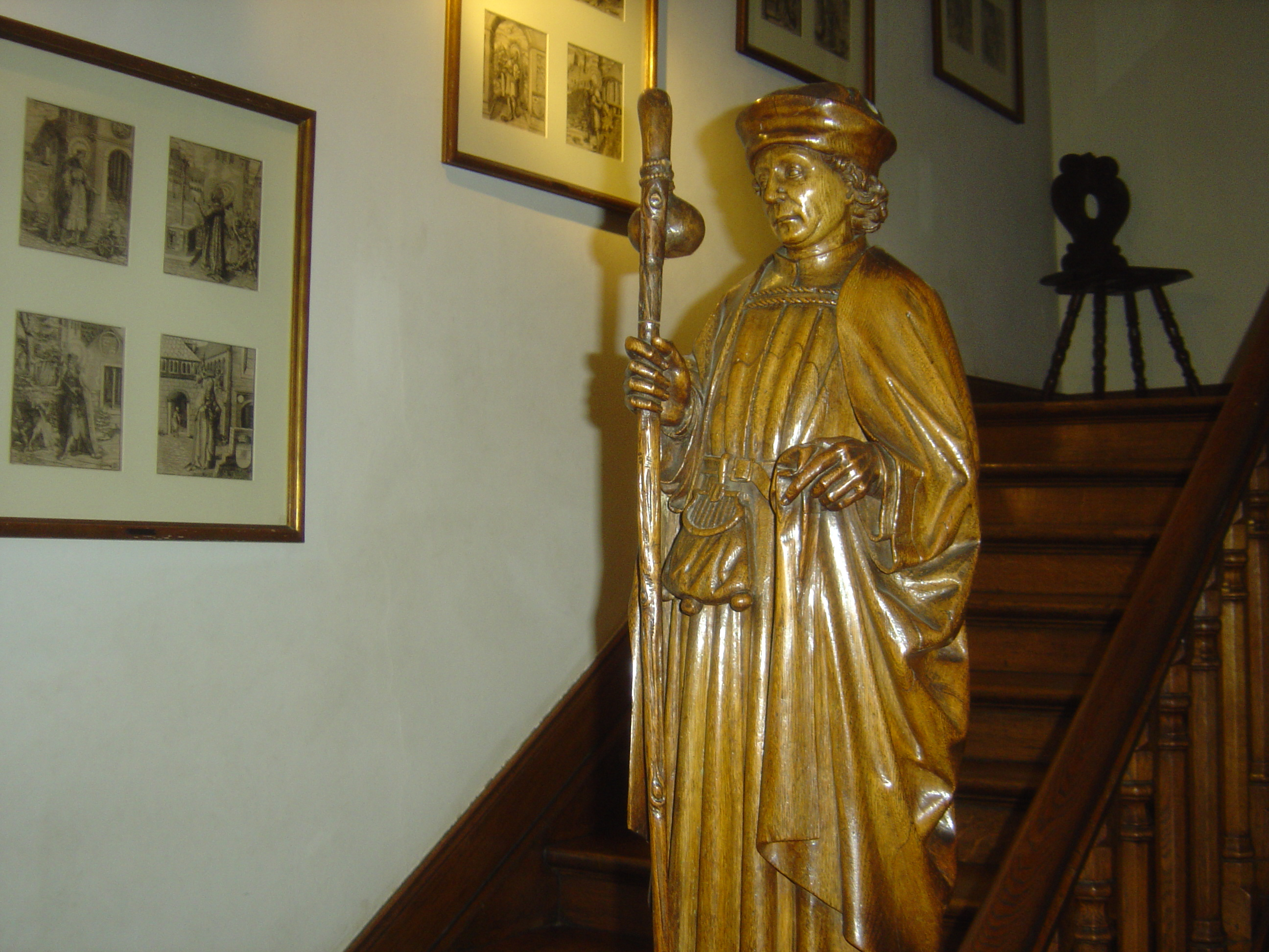 Erasmus statue in Erasmus House-Museum